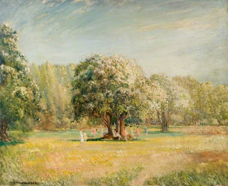 "Blossom Time, Epping Forest", Essex (oil on canvas)